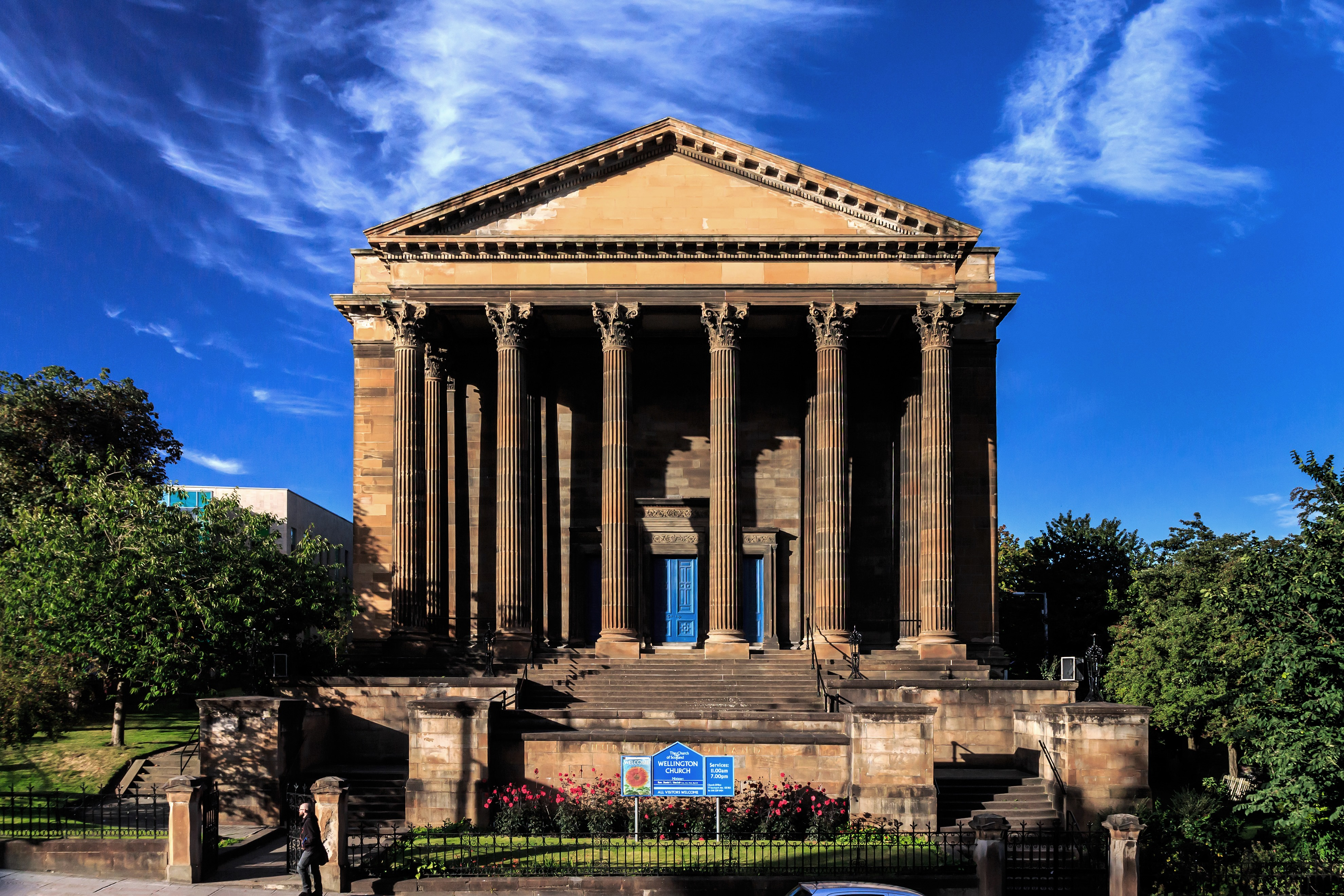 Wellington Church, a 19th-century church on University Avenue in Glasgow with the front in the style of a Greek temple.